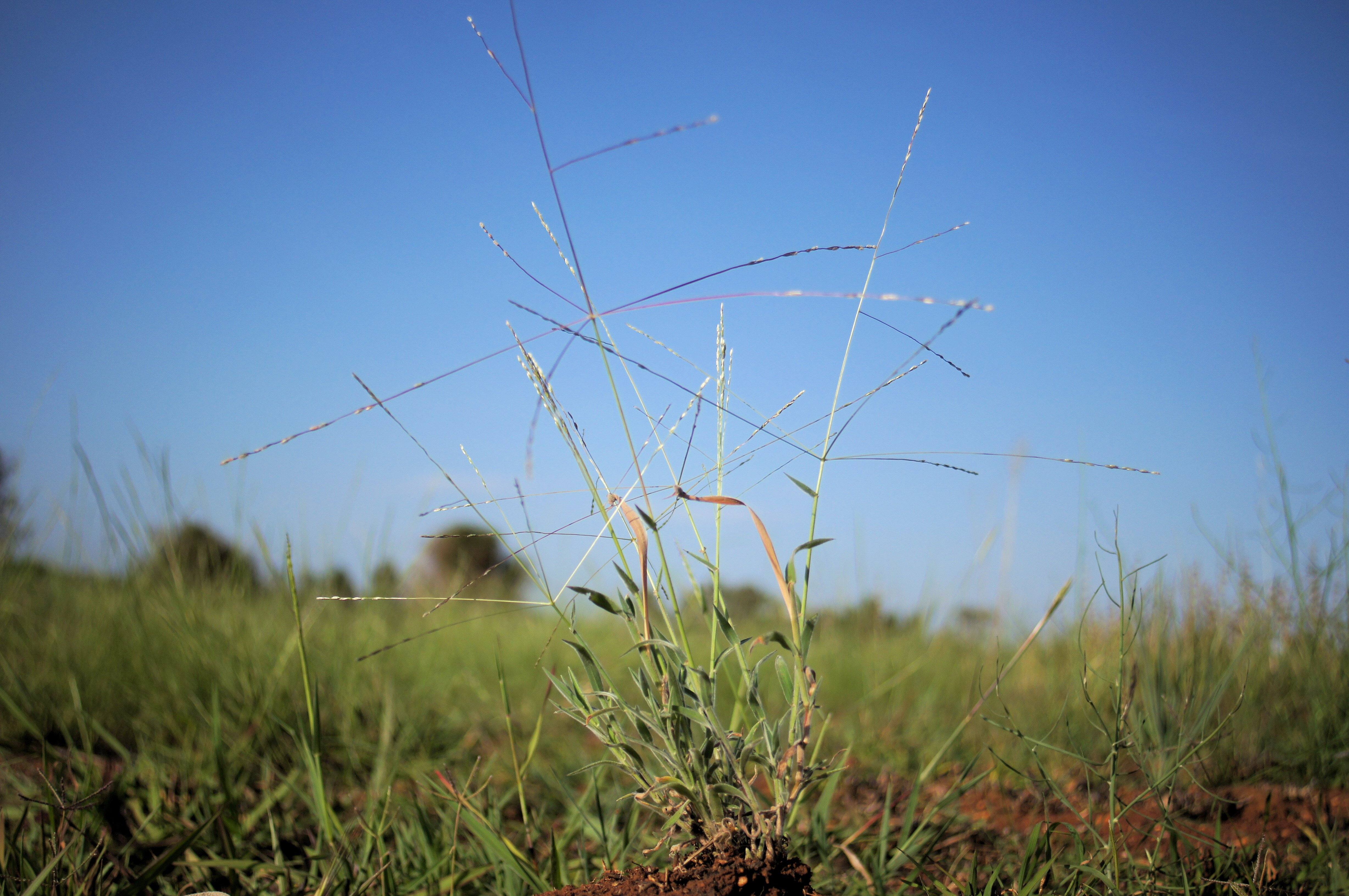 Native, warm-season, perennial, greyish grass to 80 cm tall. Stem bases are swollen and very hirsute. Grows in grassland of drier areas and is a valuable feed for livestock.